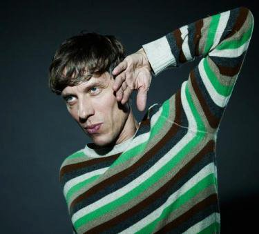 Reinhard Voigt in 2011